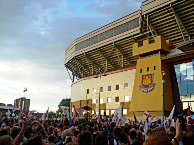 West Ham fans celebrate promotion to the Premier League outside the Boleyn Ground, May 2005